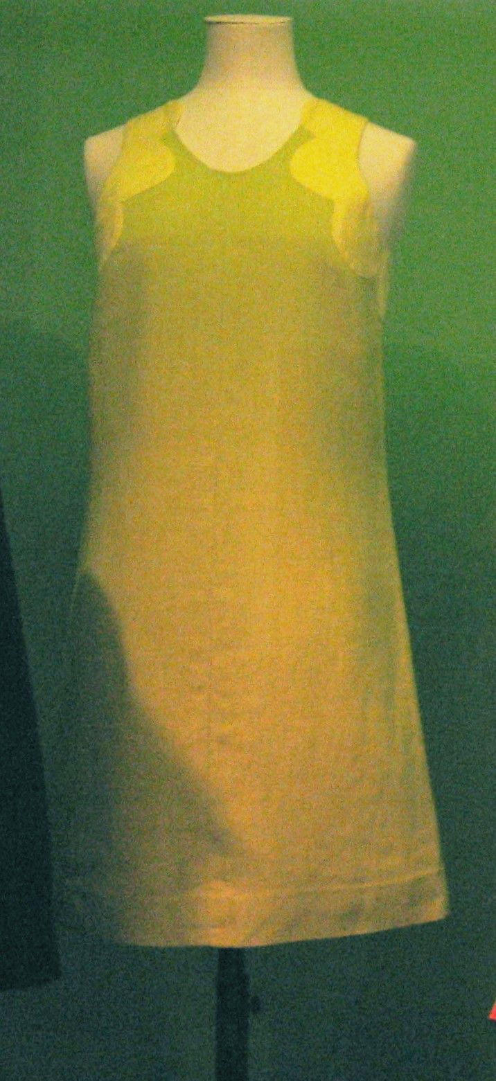 Dress, Marion Foale and Sally Tuffin, 1966. For more info, see V&A description page. From flickr photo by Nadia Priestly